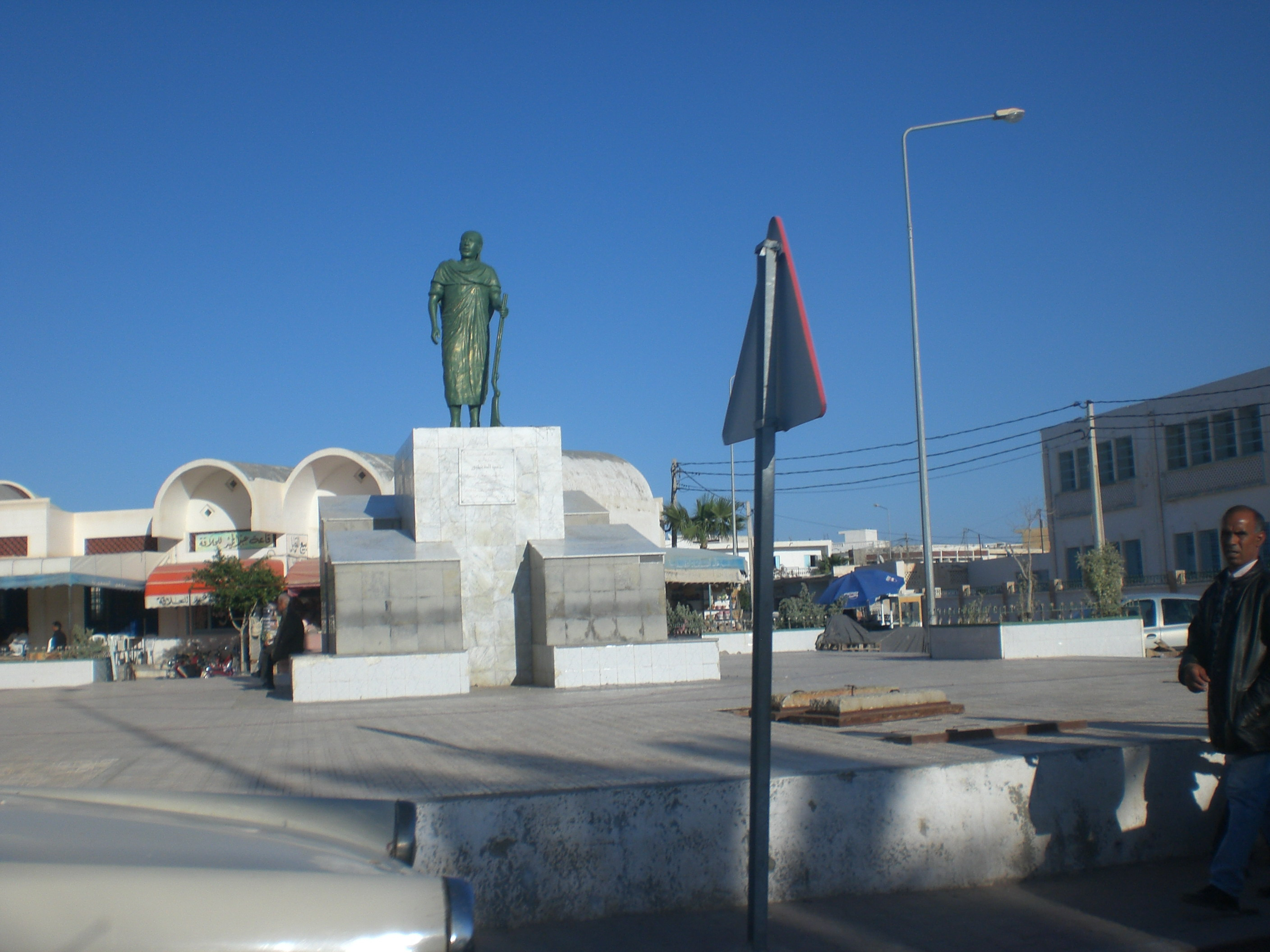 The Statue of Mohamed Daghbagi at El Hamma